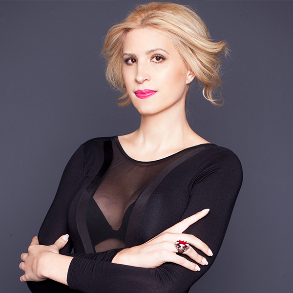 According to the Spanish Wikipedia, through Google Translate, Pastrana is a "transgender woman, physicist, economist and Colombian entrepreneur."